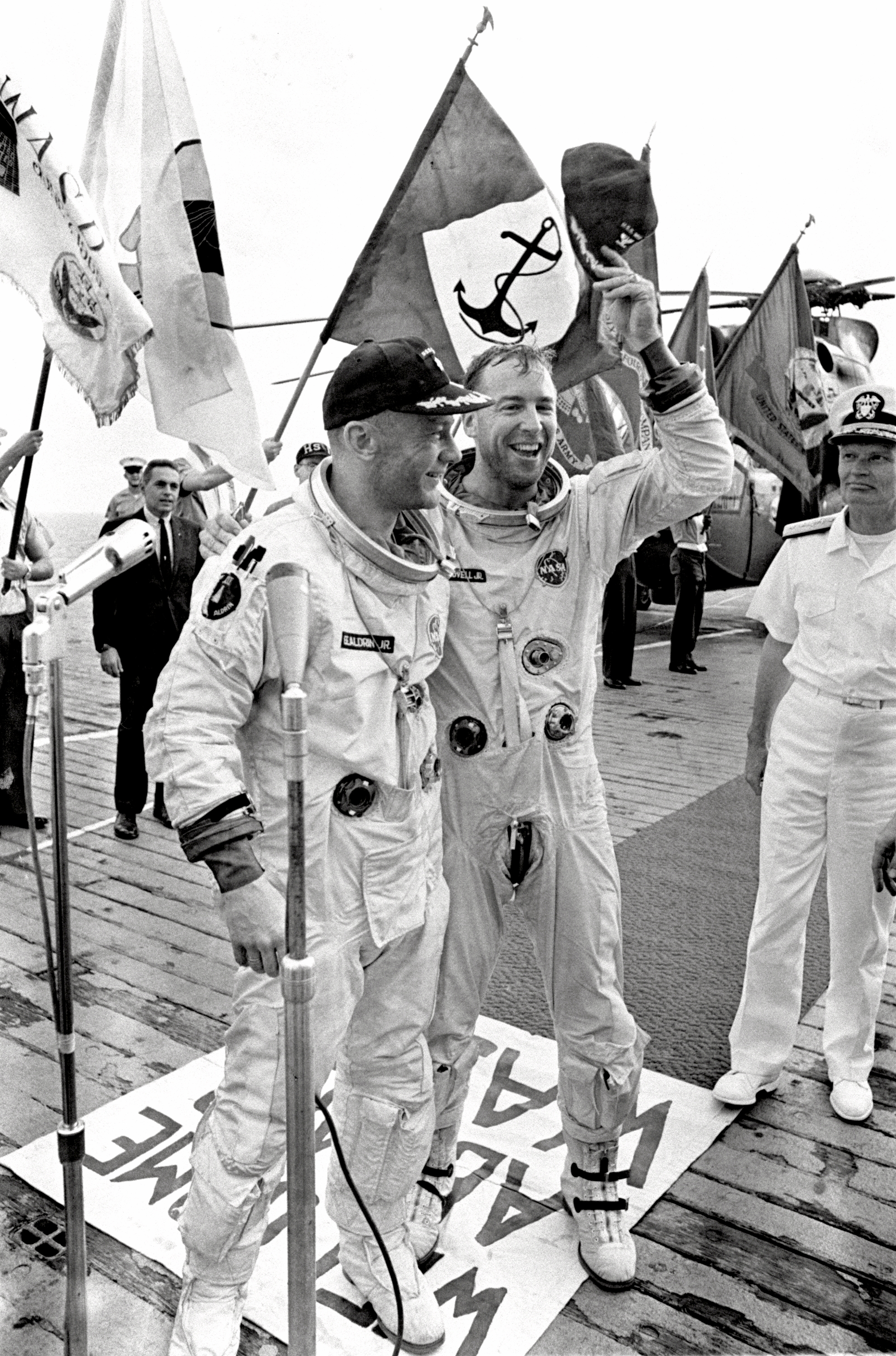 Astronauts James A. Lovell and Edwin E. Aldrin Jr. are welcomed aboard the aircraft carrier U.S.S. Wasp after their Gemini 12 spacecraft splashed down in the Atlantic Ocean.